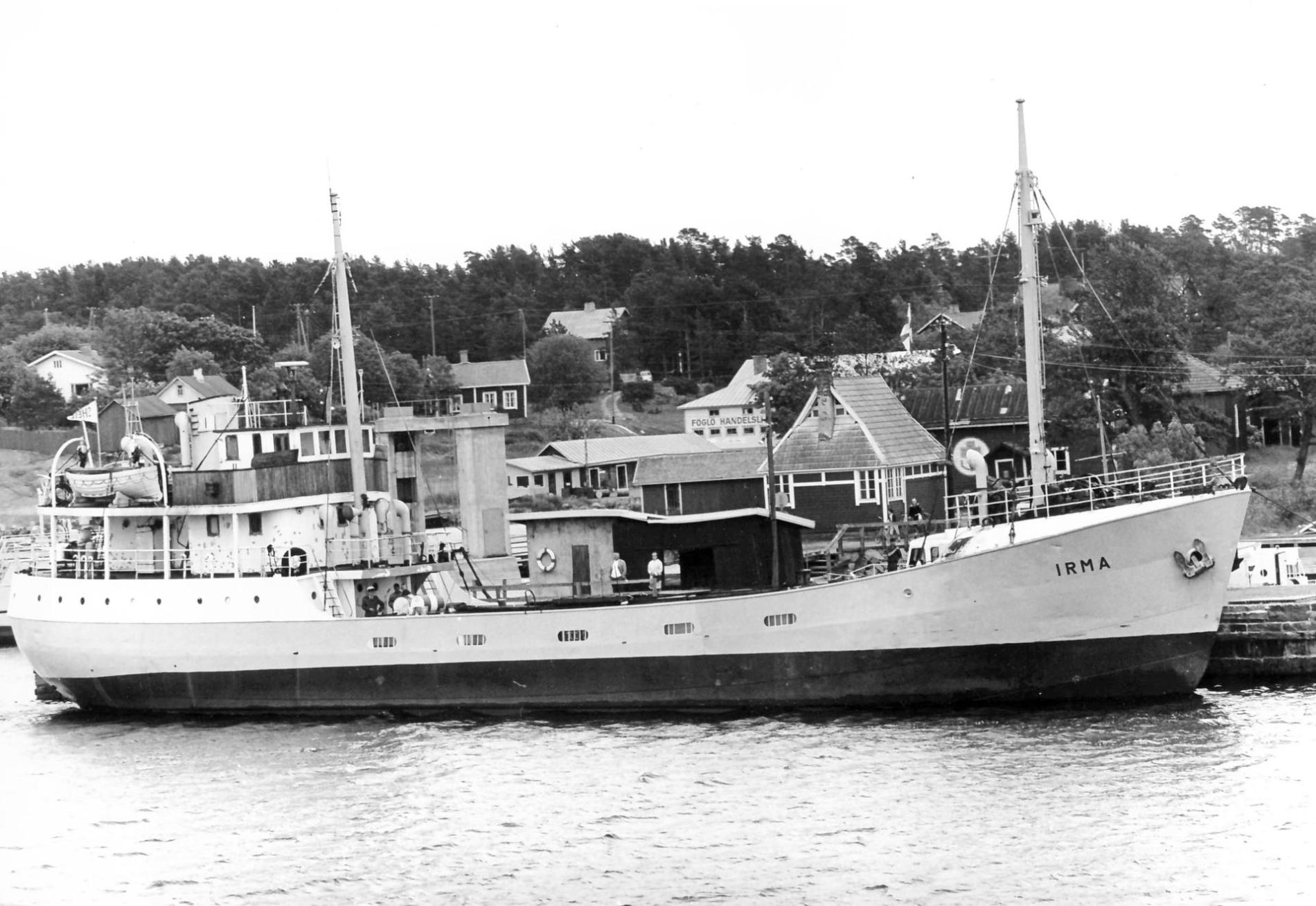 Photograph of the Finnish M/S Irma at Föglö port in Åland. She sank on 25 October 1968 with 11 people.